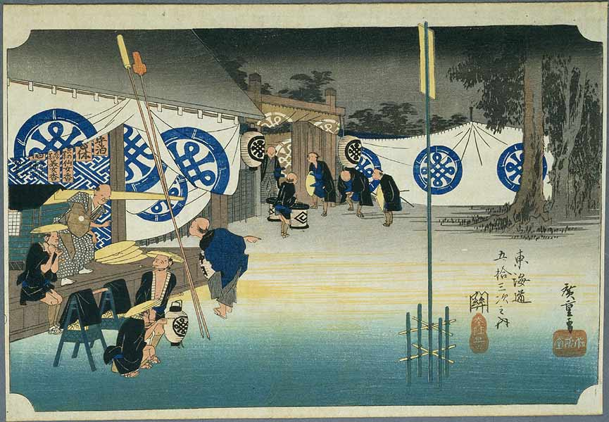 Seki on the Tokaido, ukiyo-e prints by Hiroshige